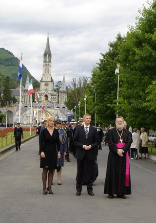 Dutch bisshop Jos Punt (right) and secretary of defence Jack de Vries (center) at Lourdes